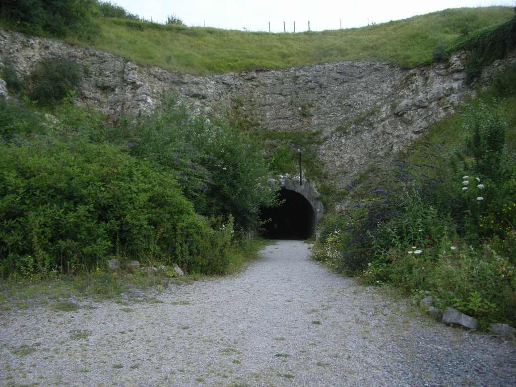 V3-Fortess Mimoyecques (France), Entrance